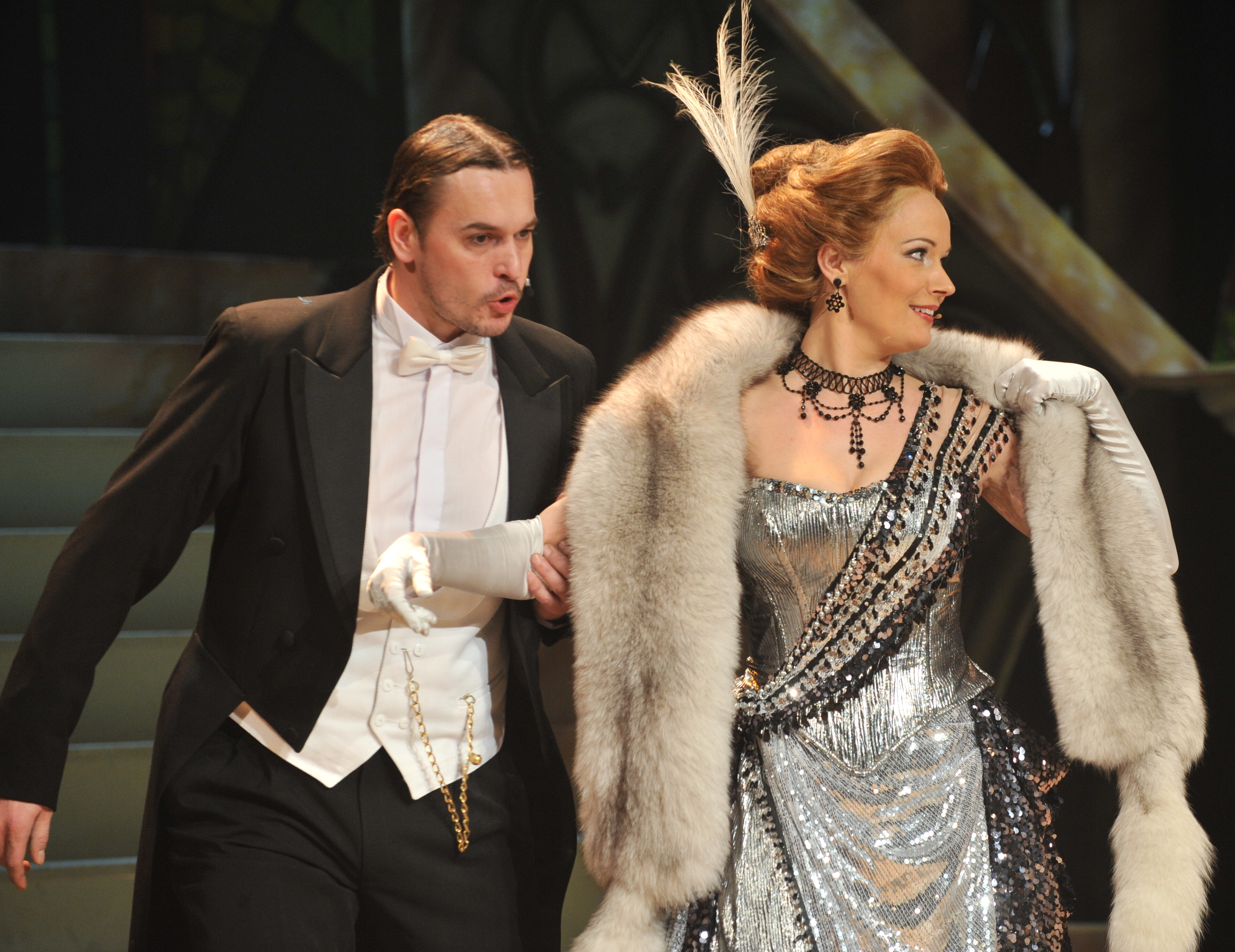 Hello, Dolly! (Alena Antalová and Petr Štěpán)